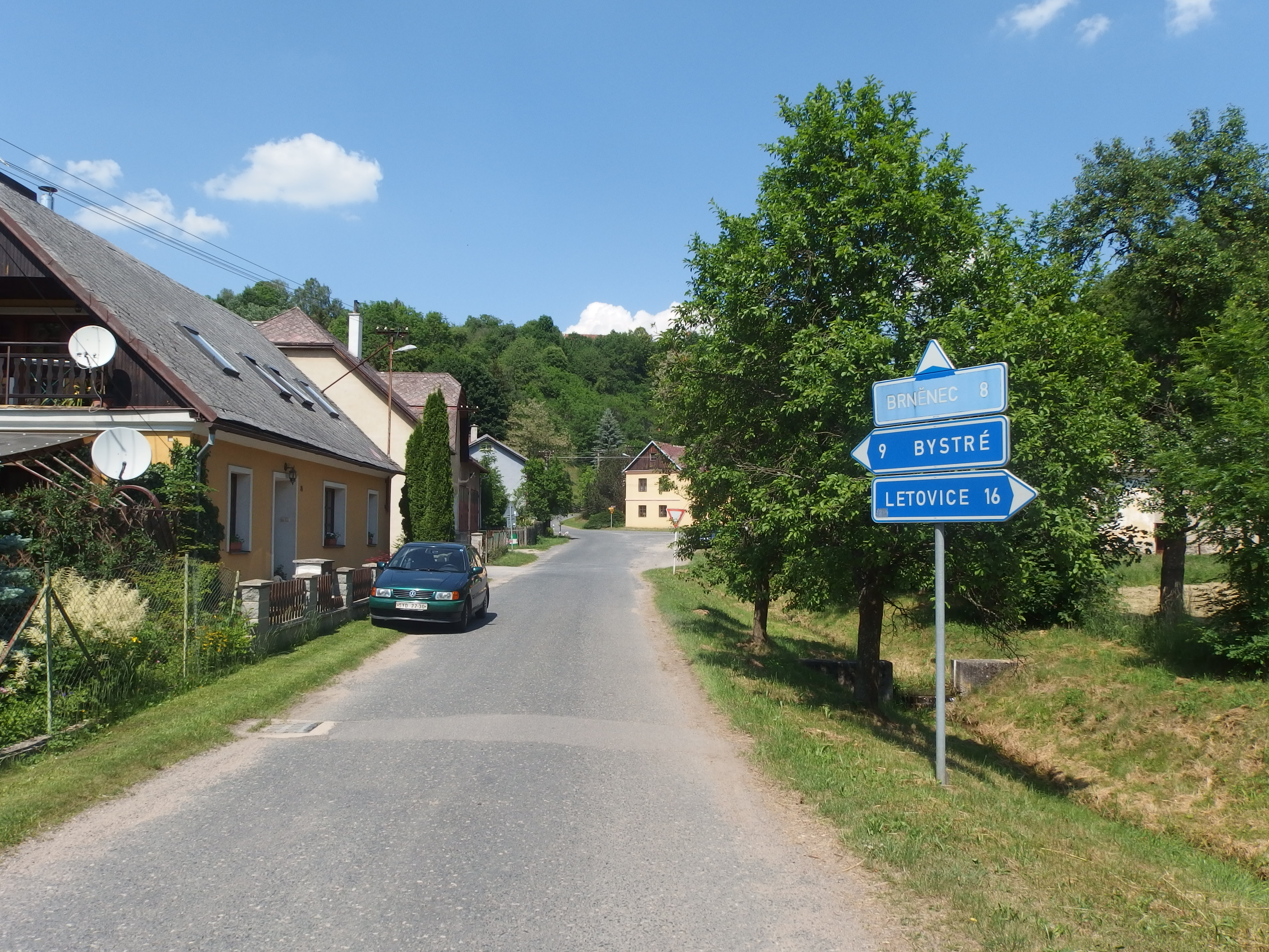 Svojanov, Svitavy District, Czech Republic, part Předměstí.